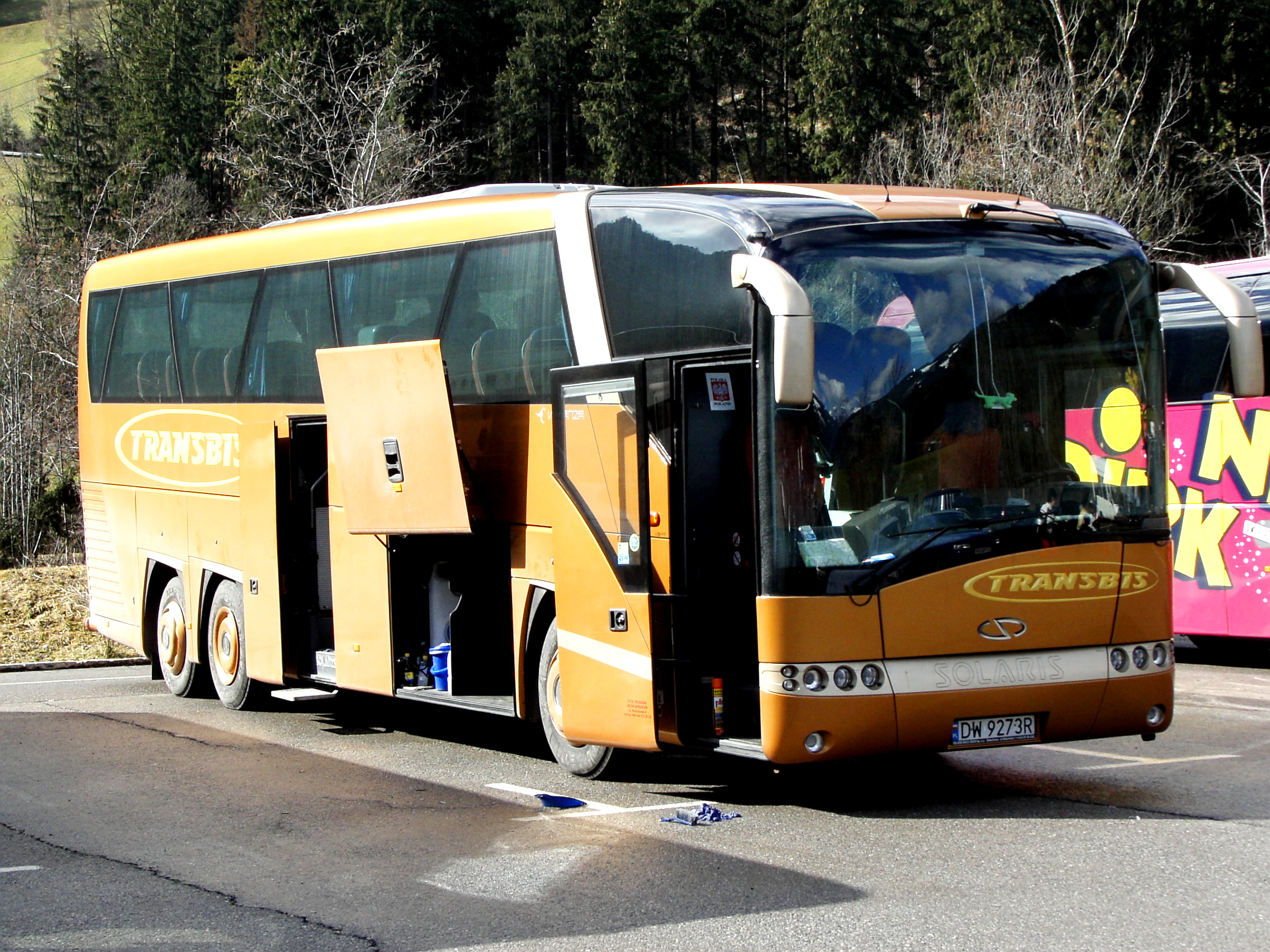 Solaris Vacanza 13 tri-axle coach in Austria. Built 2005, Transbis Myszków from Poland operator.